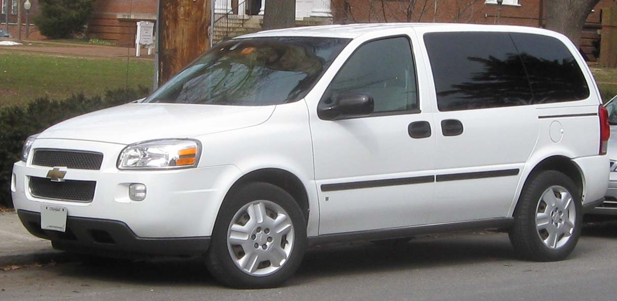 Chevrolet Uplander LS short-wheelbase photographed in Annapolis, Maryland, USA.